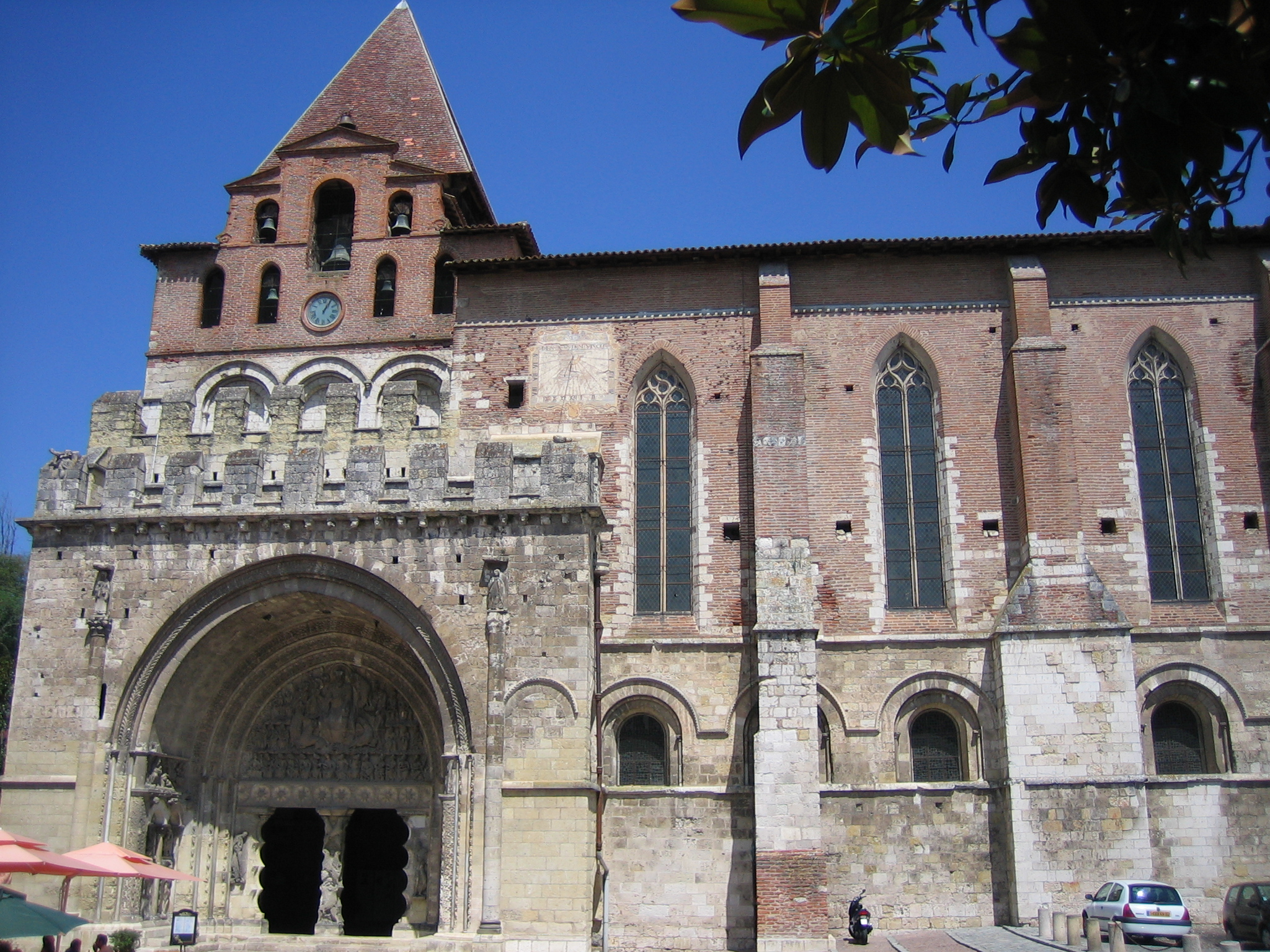 Moissac, Abbey seen from the South